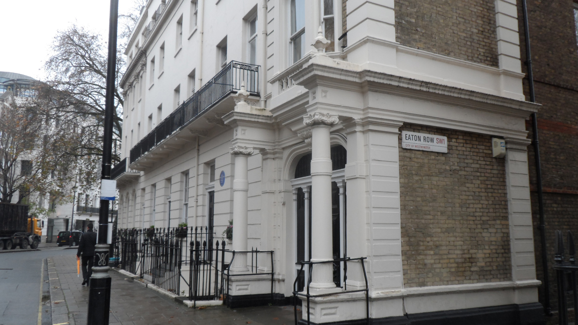 FELIX MENDELSSOHN 1809-1847 Composer stayed here